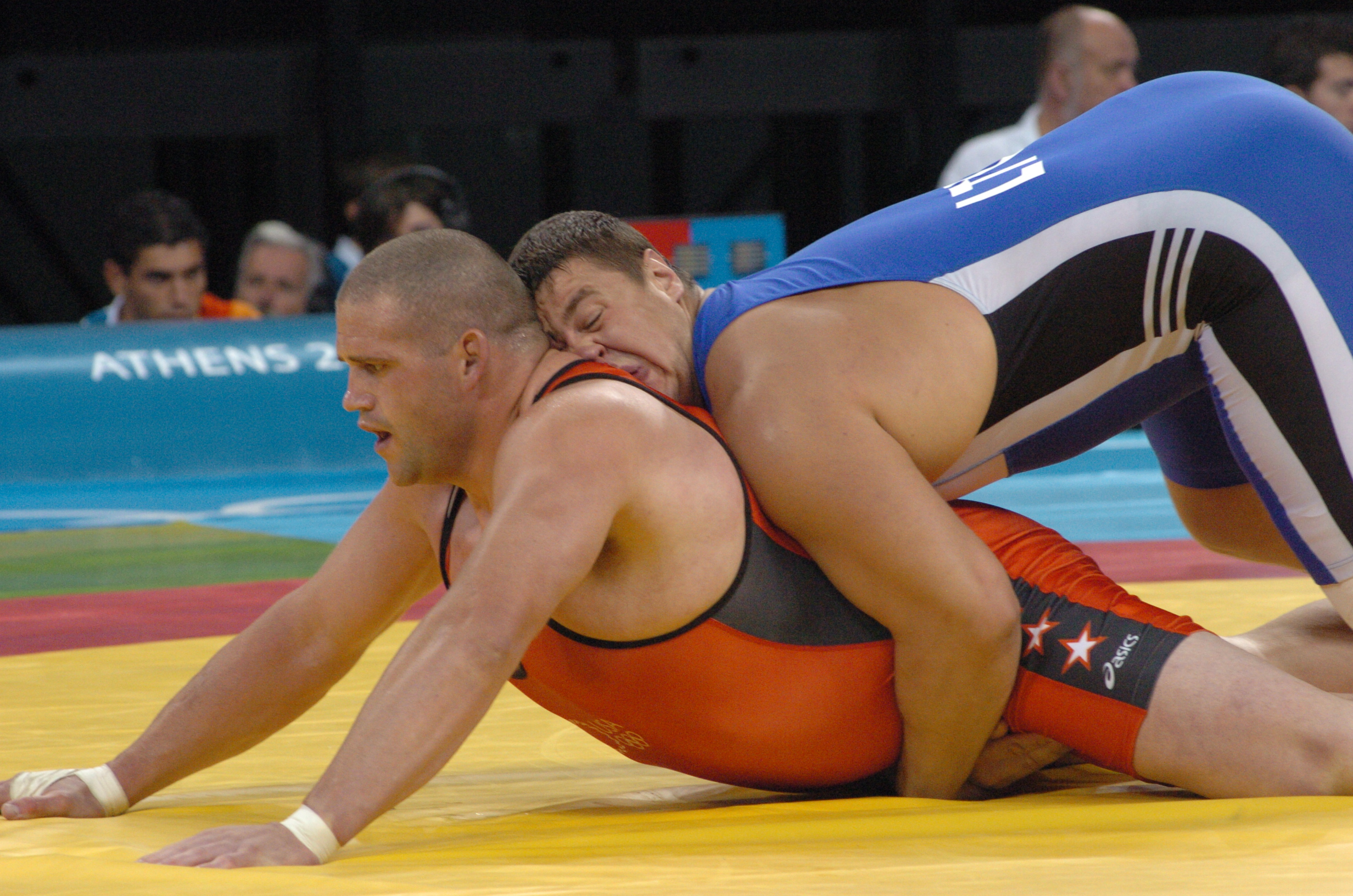 2004 Summer Olympics - Army World Class Athlete Program - FMWRC - U.S. Army - Official Image Archive - Athens Greece - XXVIII Olympiad